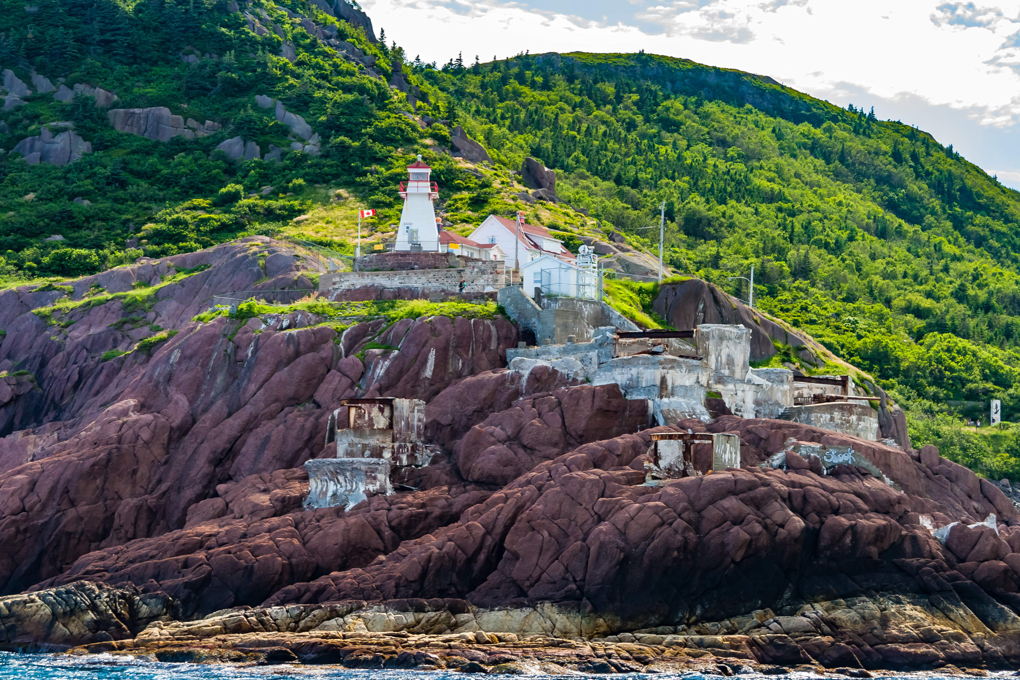 St John harbour, Newfoundland.Various views of the harbour, city, mountains, ships and wharf. St. John's (/ˌseɪntˈdʒɒnz/, local /ˌseɪntˈdʒɑːnz/) is the capital and largest city in Newfoundland and Labrador, Canada. St. John's was incorporated as a city in 1888, yet is considered by some to be the oldest English-founded city in North America.[8] It is located on the eastern tip of the Avalon Peninsula on the island of Newfoundland.